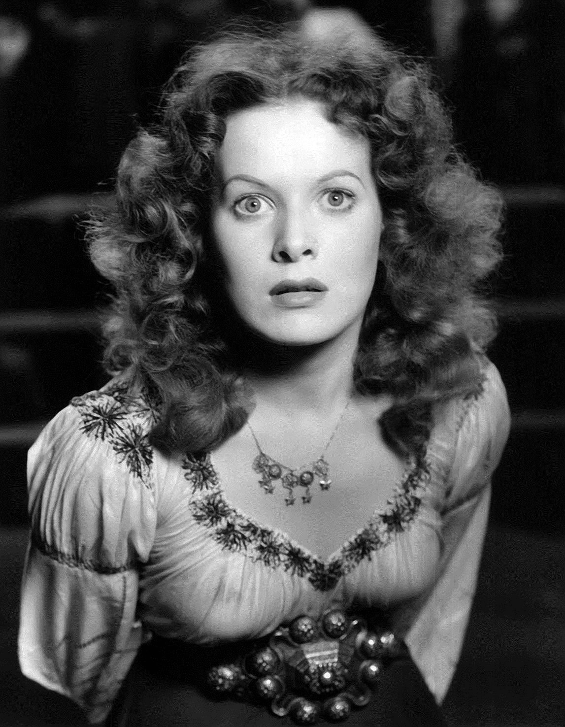 Photo from a 1939 ad placed by RKO in The Film Daily for The Hunchback of Notre Dame. This was a multi-page ad; the photo is at mid right on page 4.